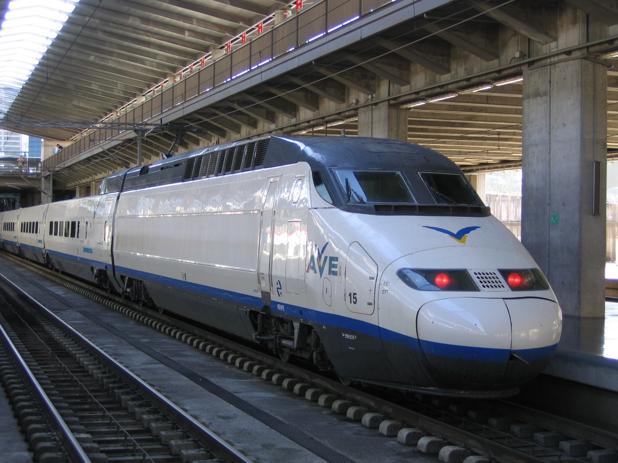 The high speed train (can achieve speeds of up to 300 km/h) that runs from Madrid to Sevilla. This is in Córdoba's station.